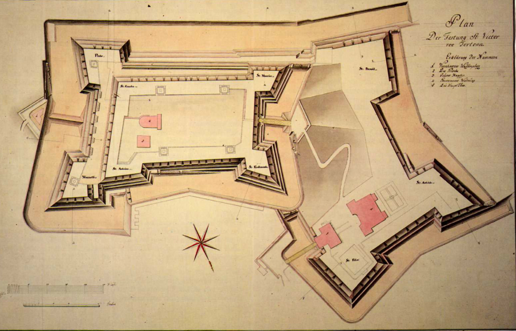 Fort planimetry